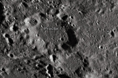 Proctor lunar crater as seen from Earth with satellite craters labeled